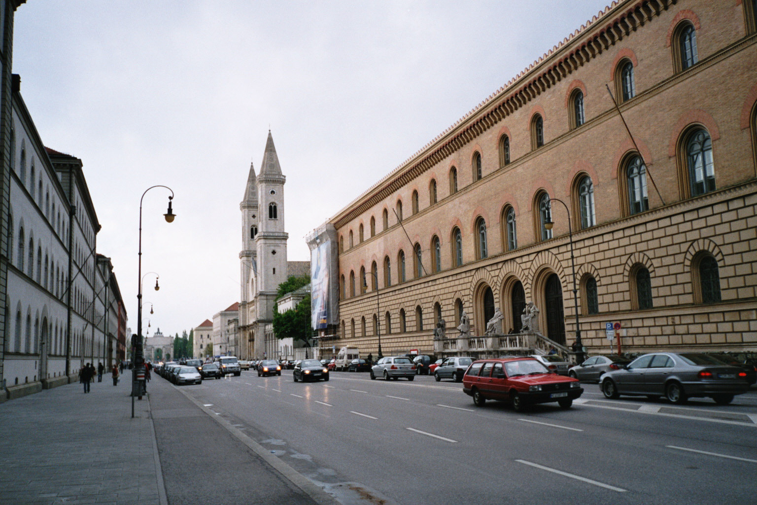 Ludwigstraße, Munich, Bacarian